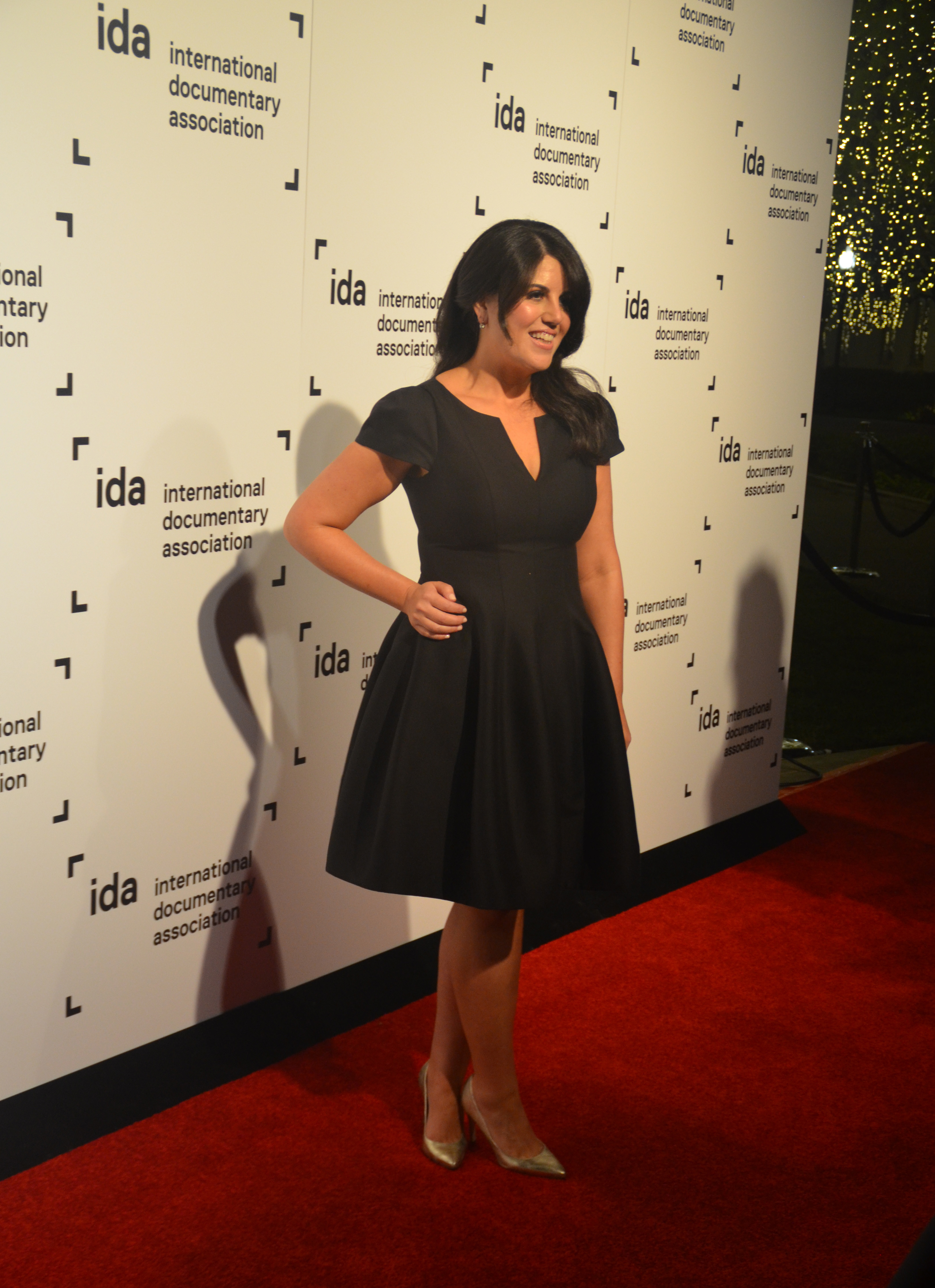 Monica Lewinsky at the 2014 International Documentary Association’s IDA Awards held at Paramount Studios in Hollywood.